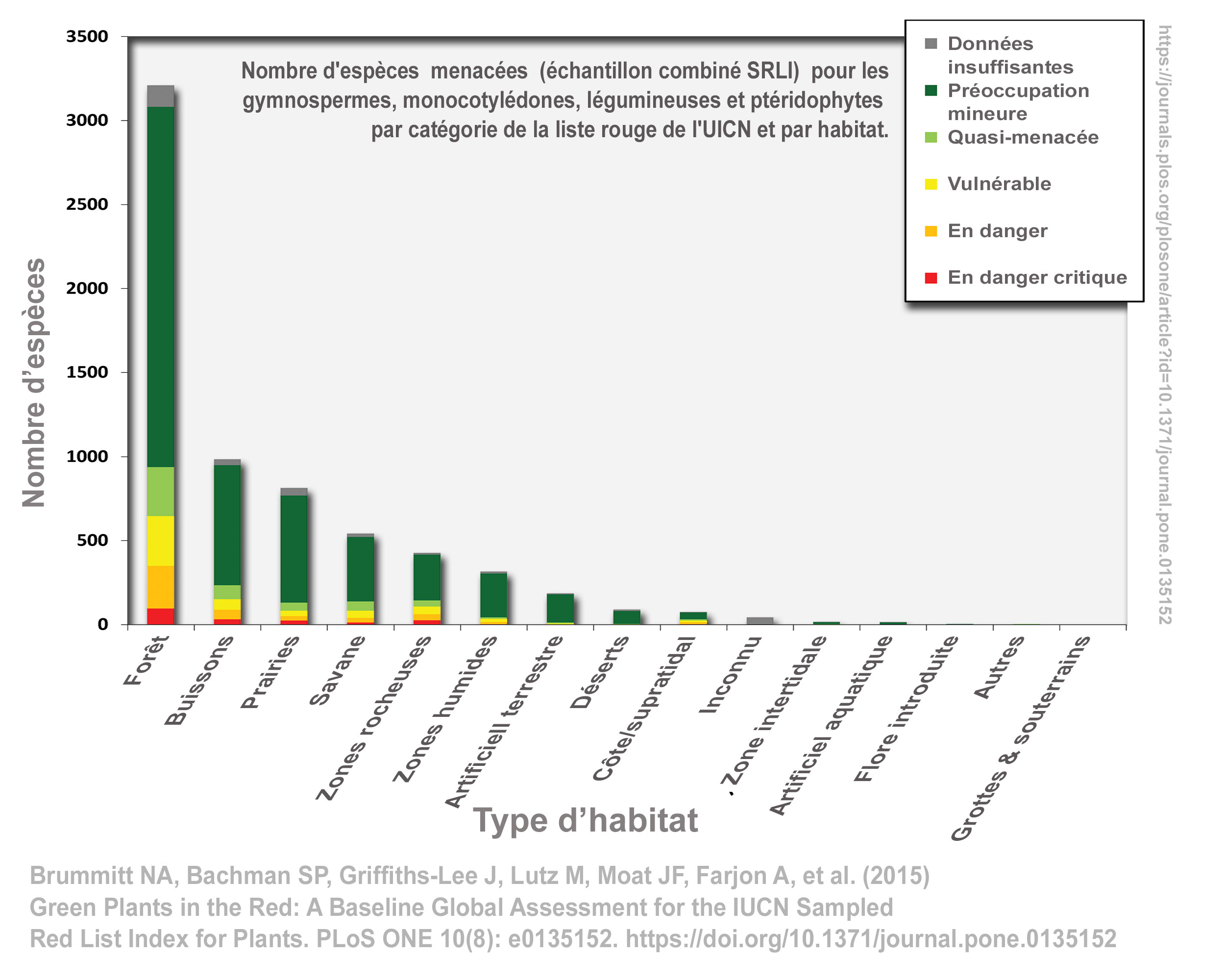 Numbers of species from the combined SRLI (IUCN Sampled Red List Index) for Plants sample of gymnosperms, monocots, legumes and pteridophytes in each IUCN Red List Category by habitat (from : Brummitt NA, Bachman SP, Griffiths-Lee J, Lutz M, Moat JF, Farjon A, et al. (2015) Green Plants in the Red: A Baseline Global Assessment for the IUCN Sampled Red List Index for Plants. PLoS ONE 10(8): e0135152. ; ; cc-by-sa 4.0)